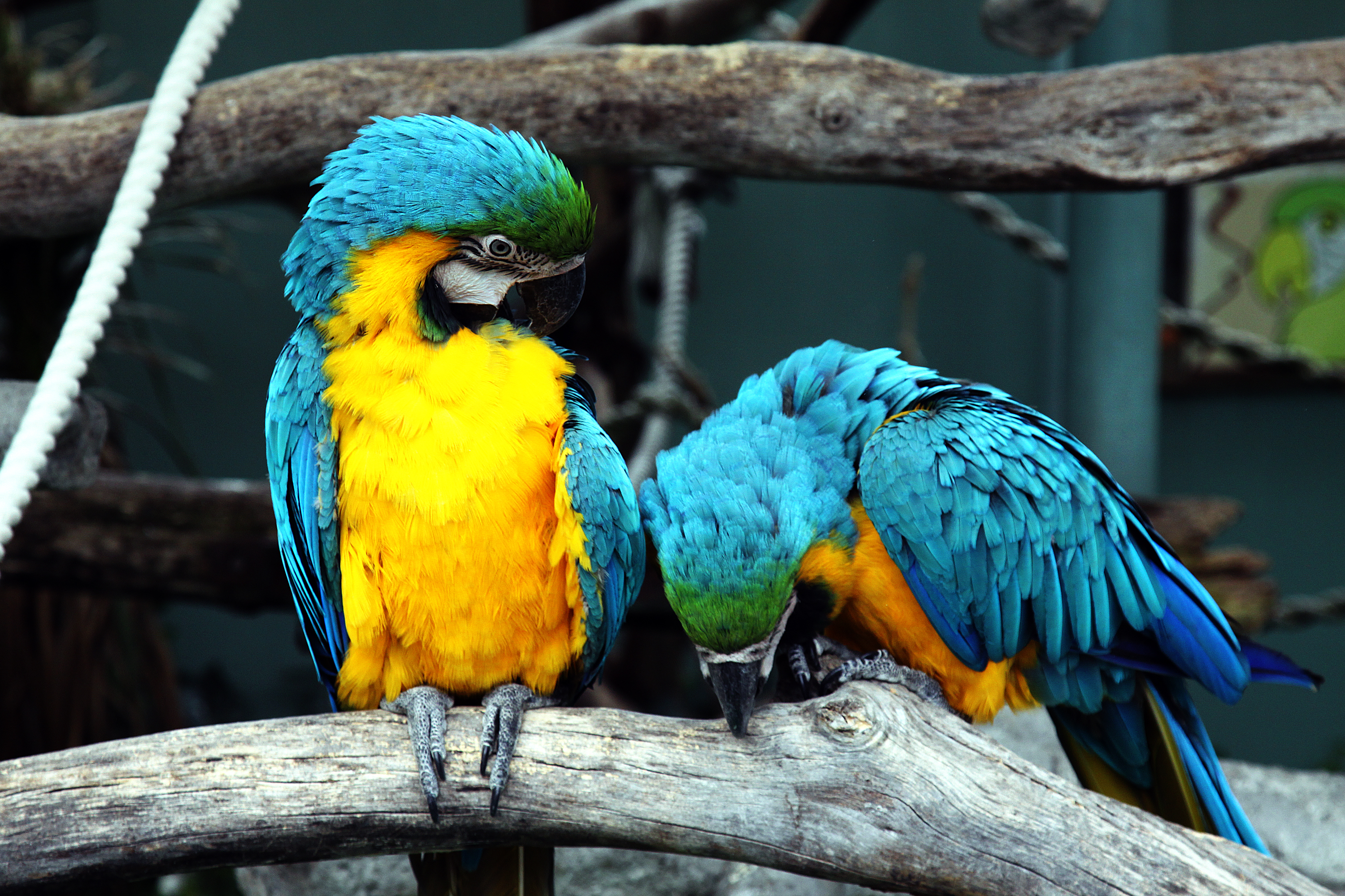 Macaws in the Hiroshima City Asa Zoological Park greet visitors to the bird and petting zoo area. The petting zoo is home to goats, sheep, chickens and pigs.